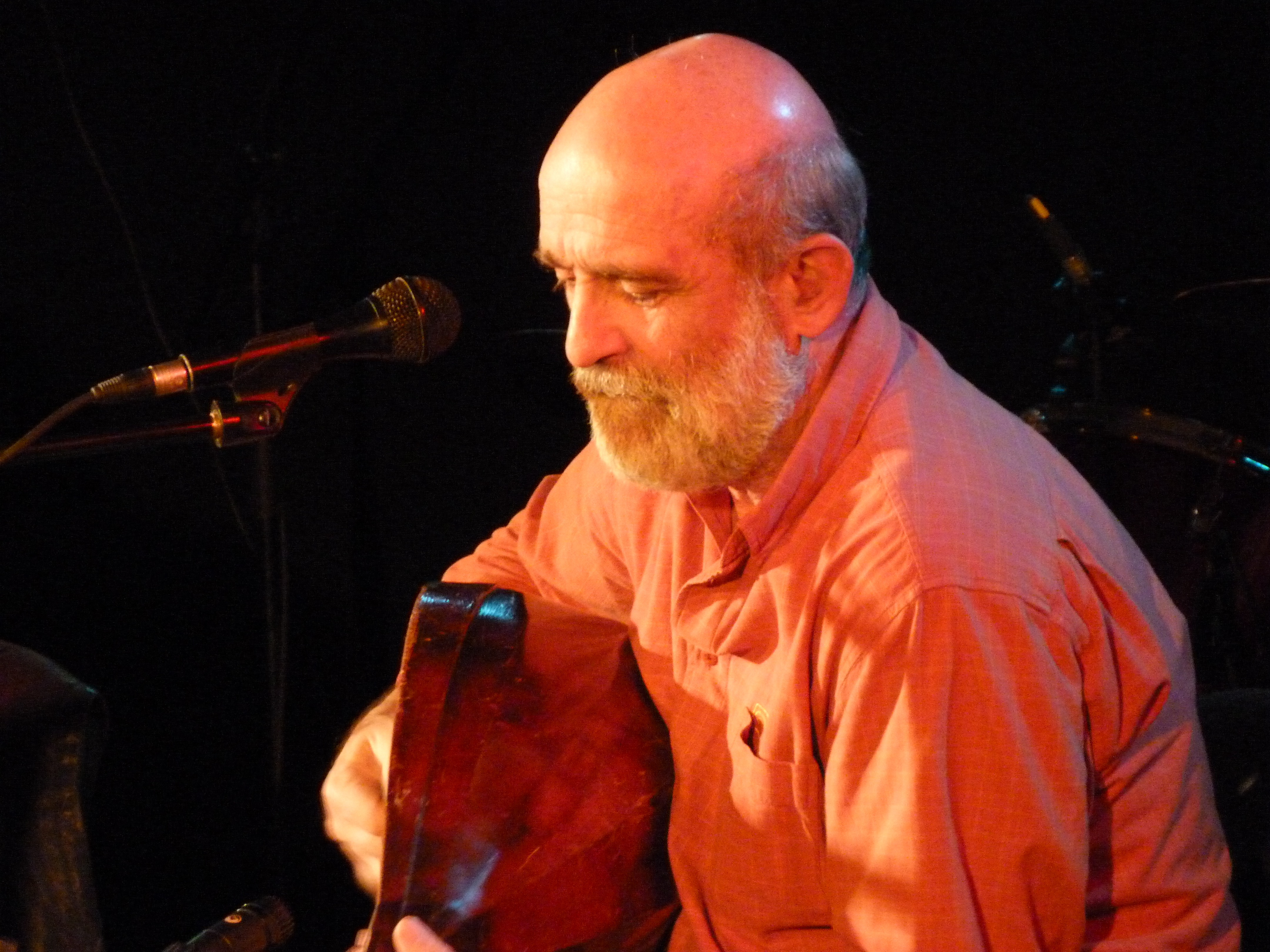 Gryllus Vilmos.Live on the 30th of january, 2012. Downtown Budapest, Magyarország. Gödör Farewell Party (Víg Végnapjaink Fesztivál). Published under Creative Commons in the Metapolisz DVD line. A felvételek 2012. január 30-án, hétfőn készültek Budapest belvárosában, a Gödör Klubban. A Design Terminál 2012. február 1–től átvette a hely üzemeltetését. Az addigi üzemeltető szerződése január végén lejárt. Az új Akvárium nevű klub programszervezője a Volt Fesztivál és a Balaton Sound programigazgatója, Muraközy Péter lett. Filep Ákos, a hely addigi üzemeltetője a Gödör Klubnak új helyet keresett. Megjelent Creative Commons alatt a Metapolisz DVD sorozatban. Tags: Gödör Farewell Party Víg Végnapjaink Fesztivál 2012 január 30 Budapest Downtown Magyarország Metapolisz DVD line Források: Búcsú az Erzsébet tértől – Gödör Klub „Február 1-tól ez nem a mi helyünk" -- megszűnik a Gödör